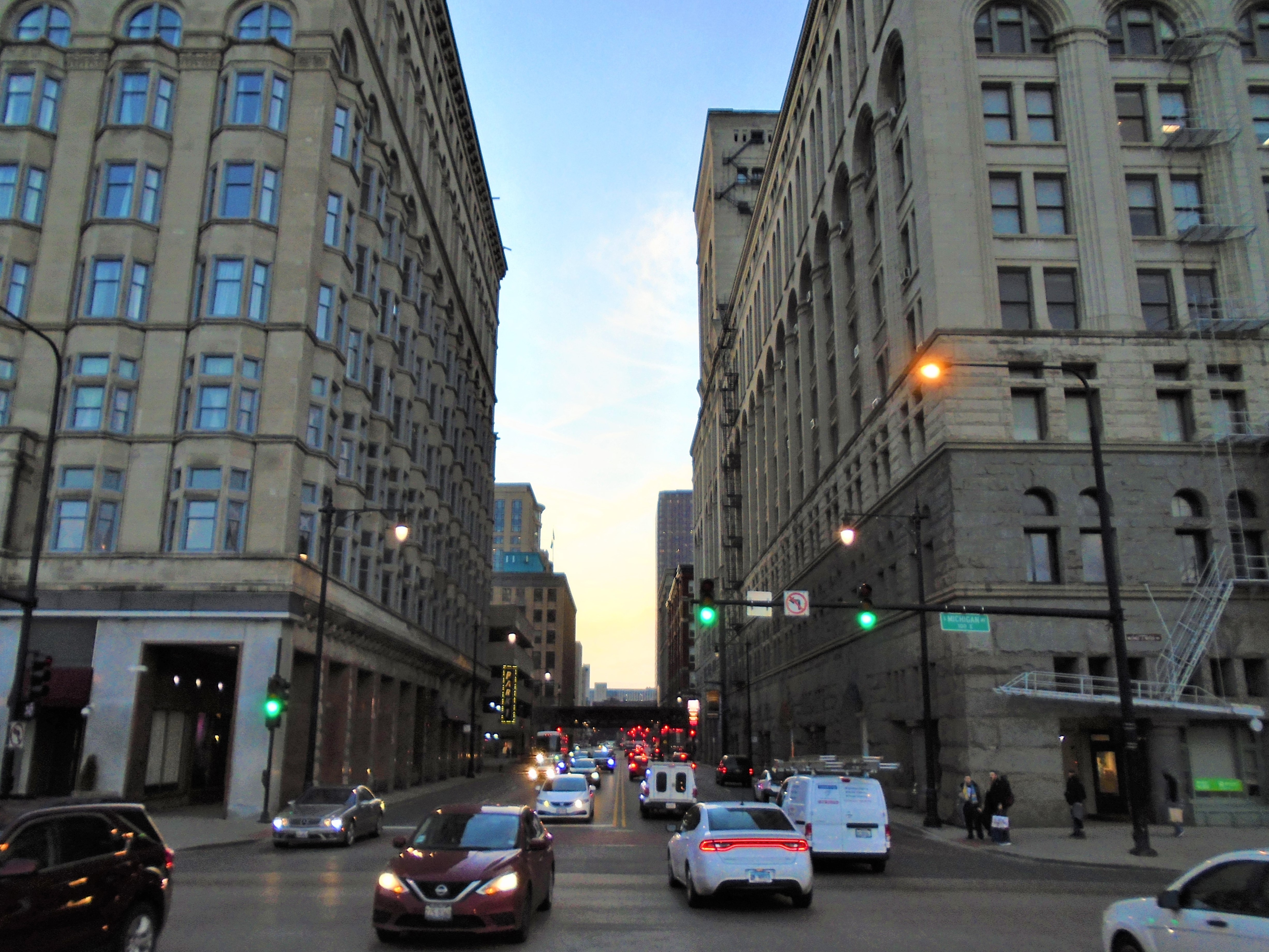 Chicago street-scape Ida B Wells Drive at Michigan Avenue